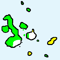 Buteo galapagoensis distribution. Yellow - possibly extinct. Green - resident